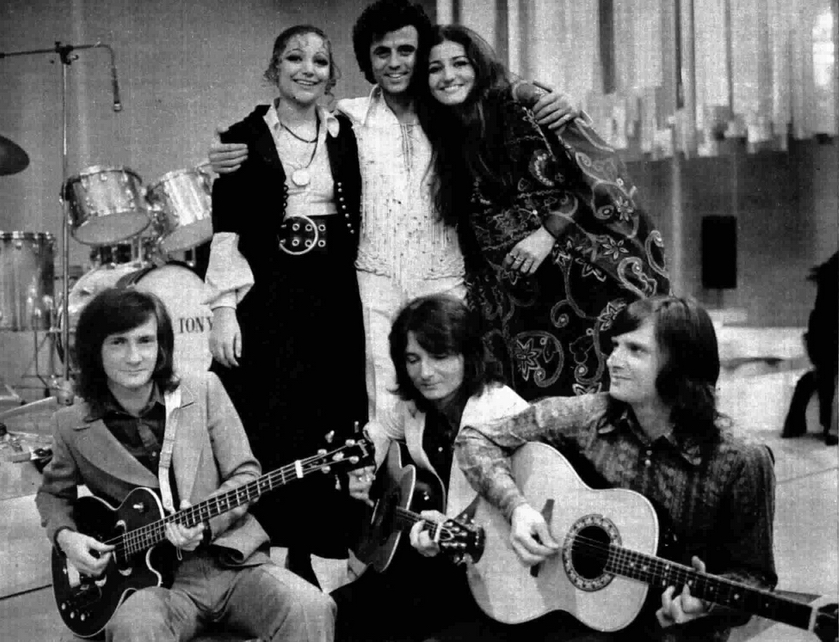 singers Mia Martini, Little Tony, Vena Veroutis and Tin-Tin in the Italian TV-show Stasera Little Tony, Turin, 1972.